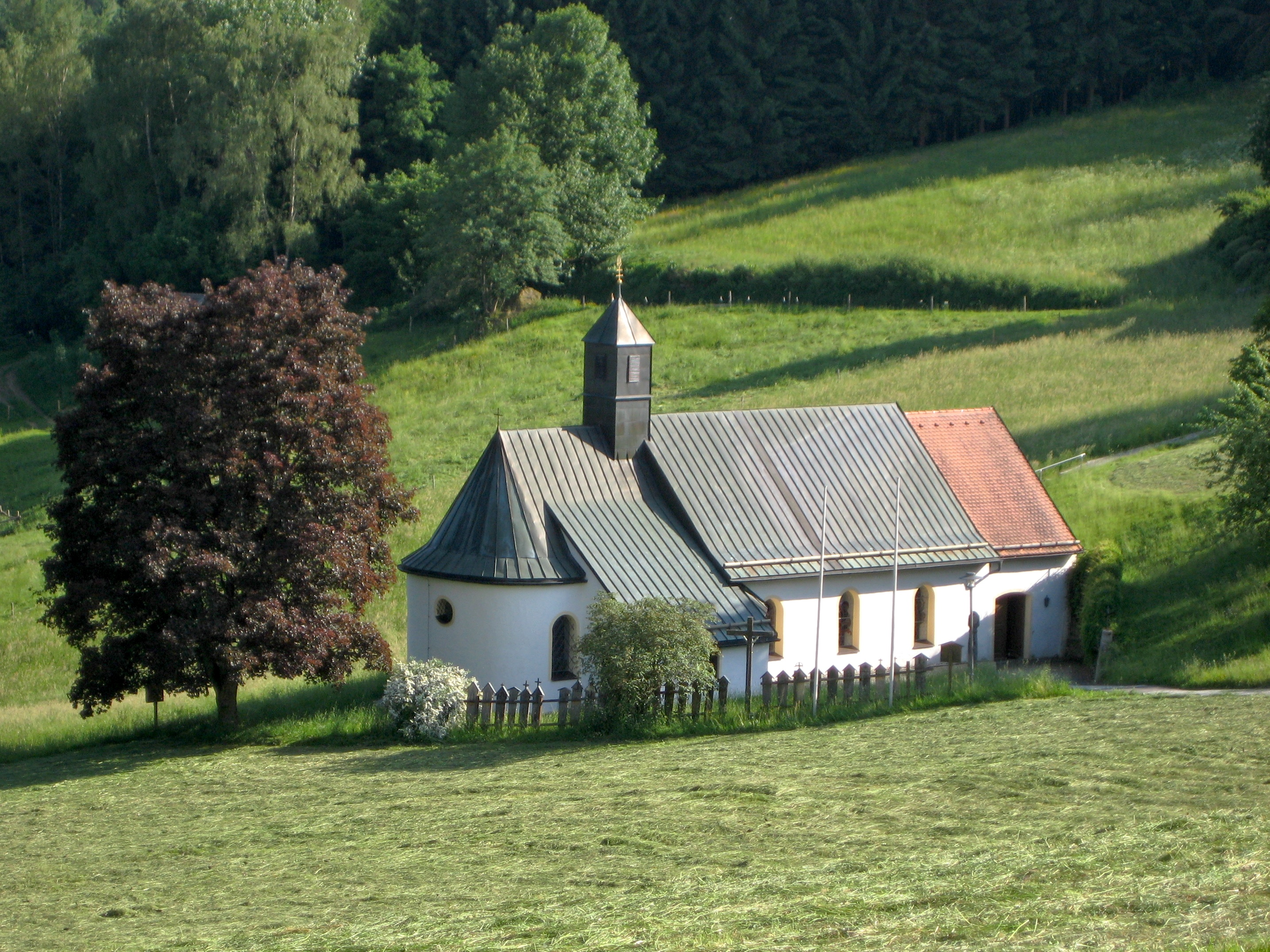 Chapel Osterbrünnl near Ruhmannsfelden